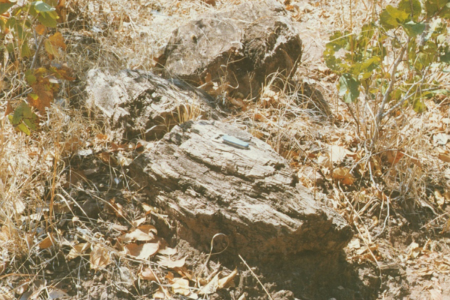 Dadoxylon fossil trunks, Chalala area, Zimbabwe